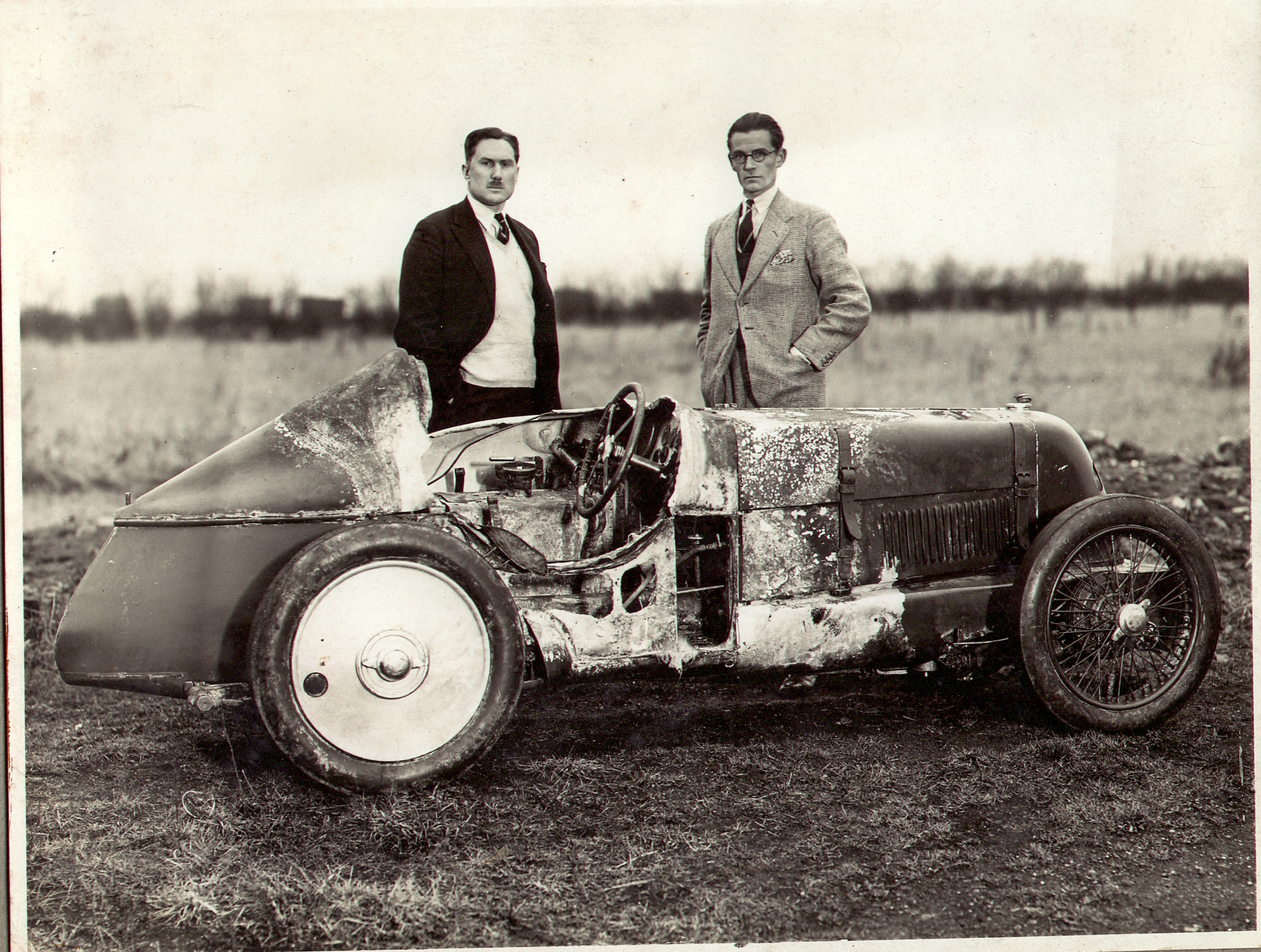 George Eyston and James Palmes with burnout M.G. Midget. Used by Eyston (at Brooklands 9/3/1931) to attack Sir Malcolm Cambell's record for the flying mile. Photograph is the property of the Palmes family of Naburn.